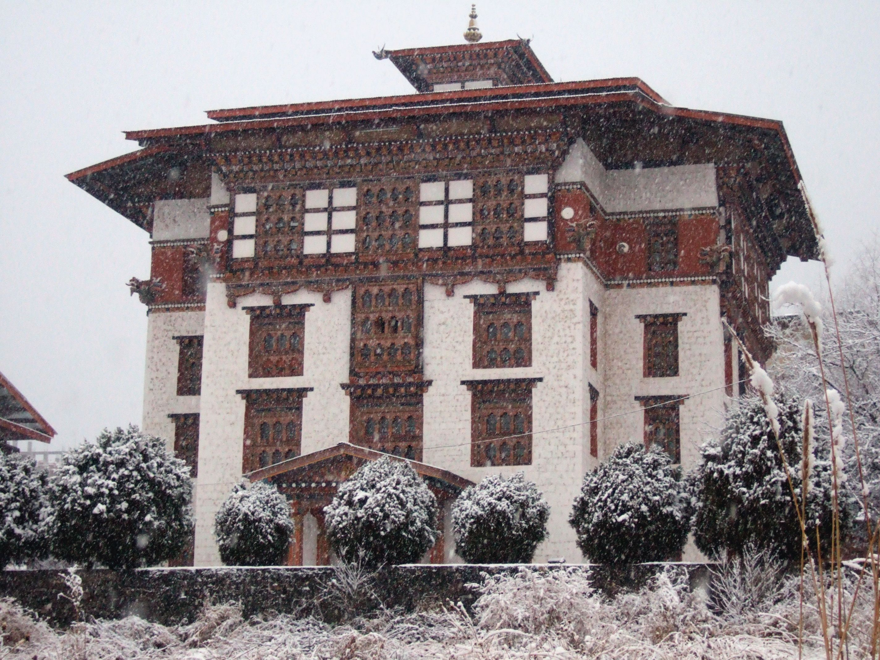 National Library of Bhutan, Thimphu. Main buiding in a snowfall.